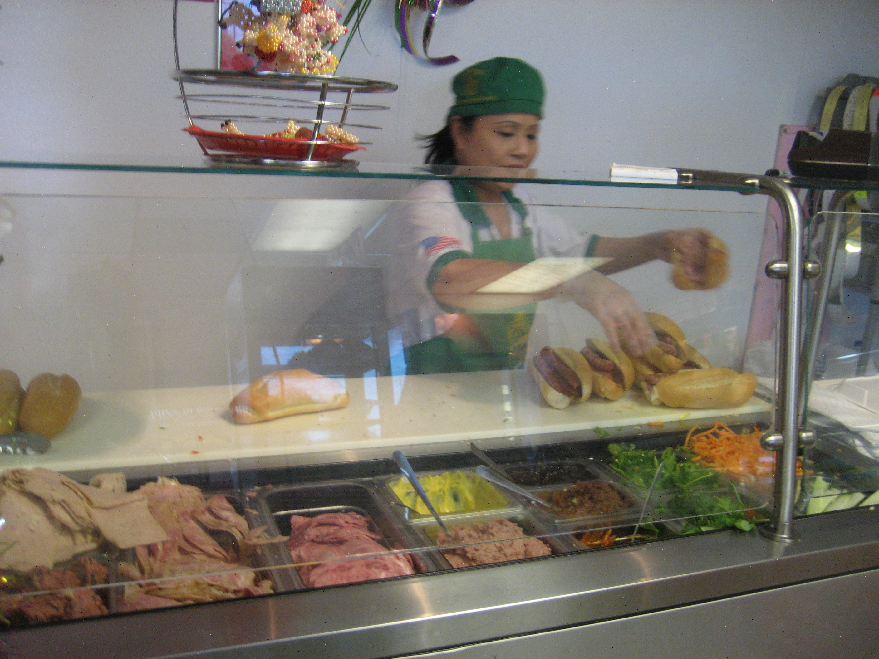 Dong Phuong Restaurant & Bakery, Eastern New Orleans, Sandwich making counter